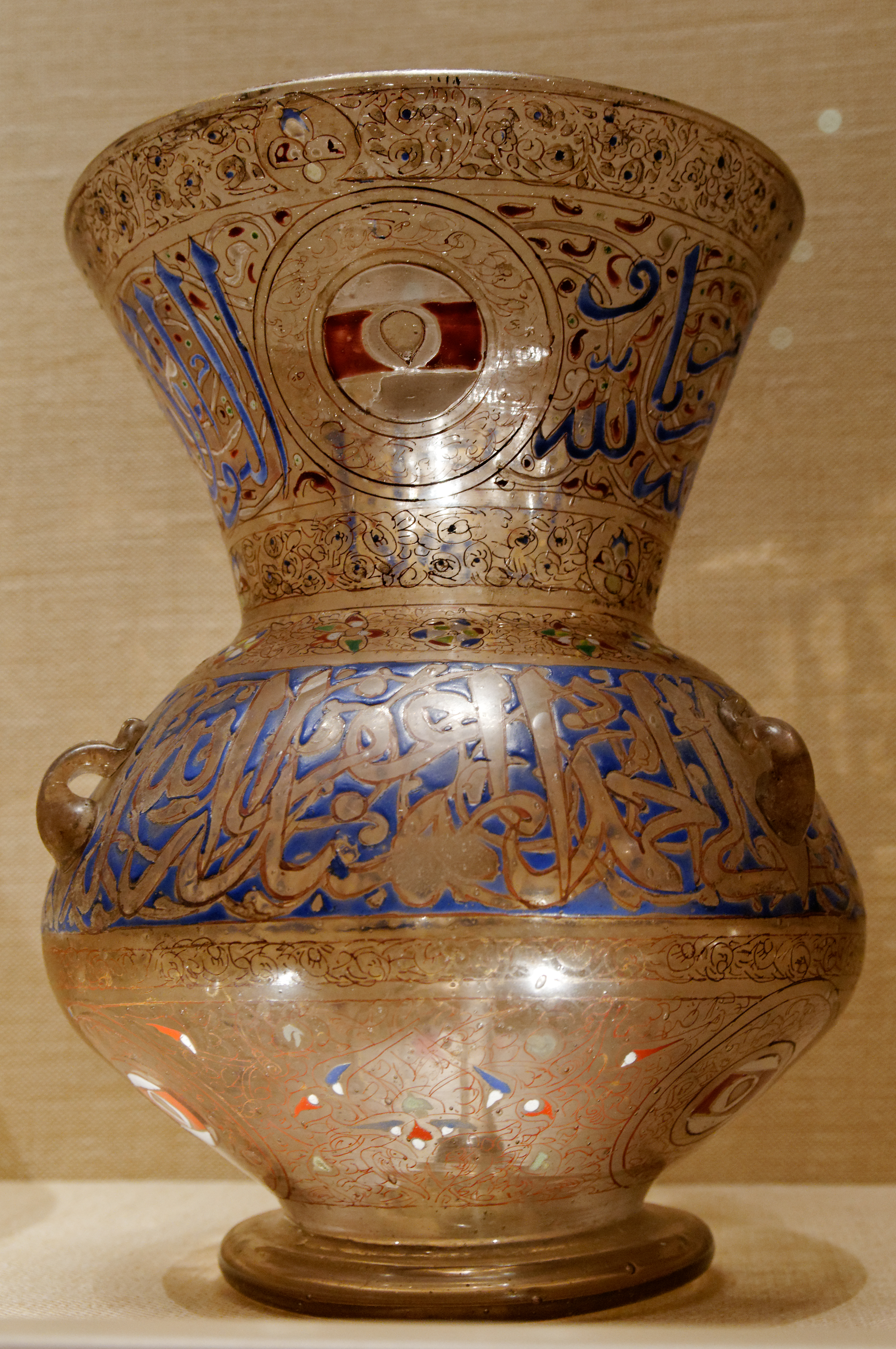 Mosque lamp donated Amir Ahmad al-Mihmandar.